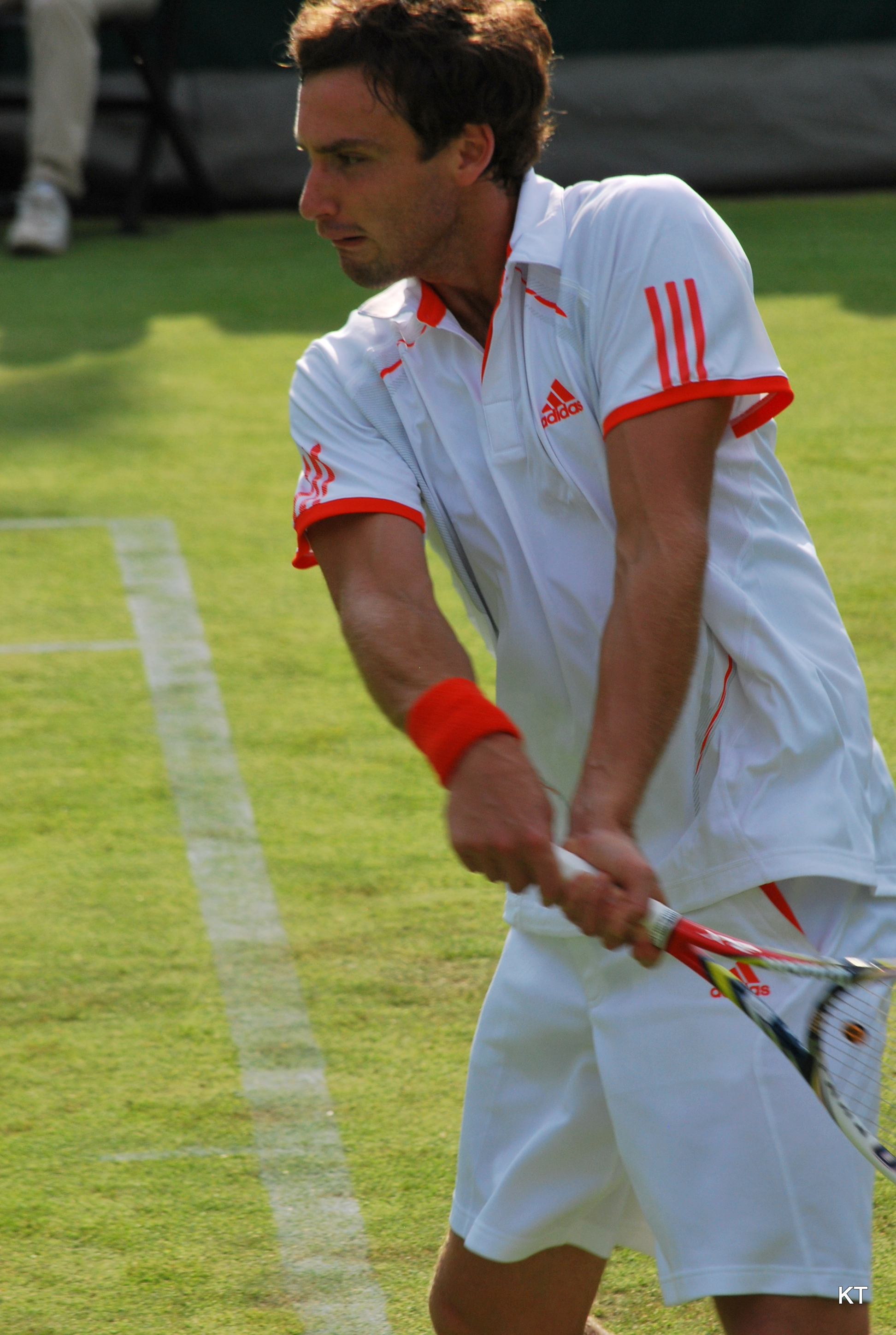 The Boodles, Stoke Park 2012.